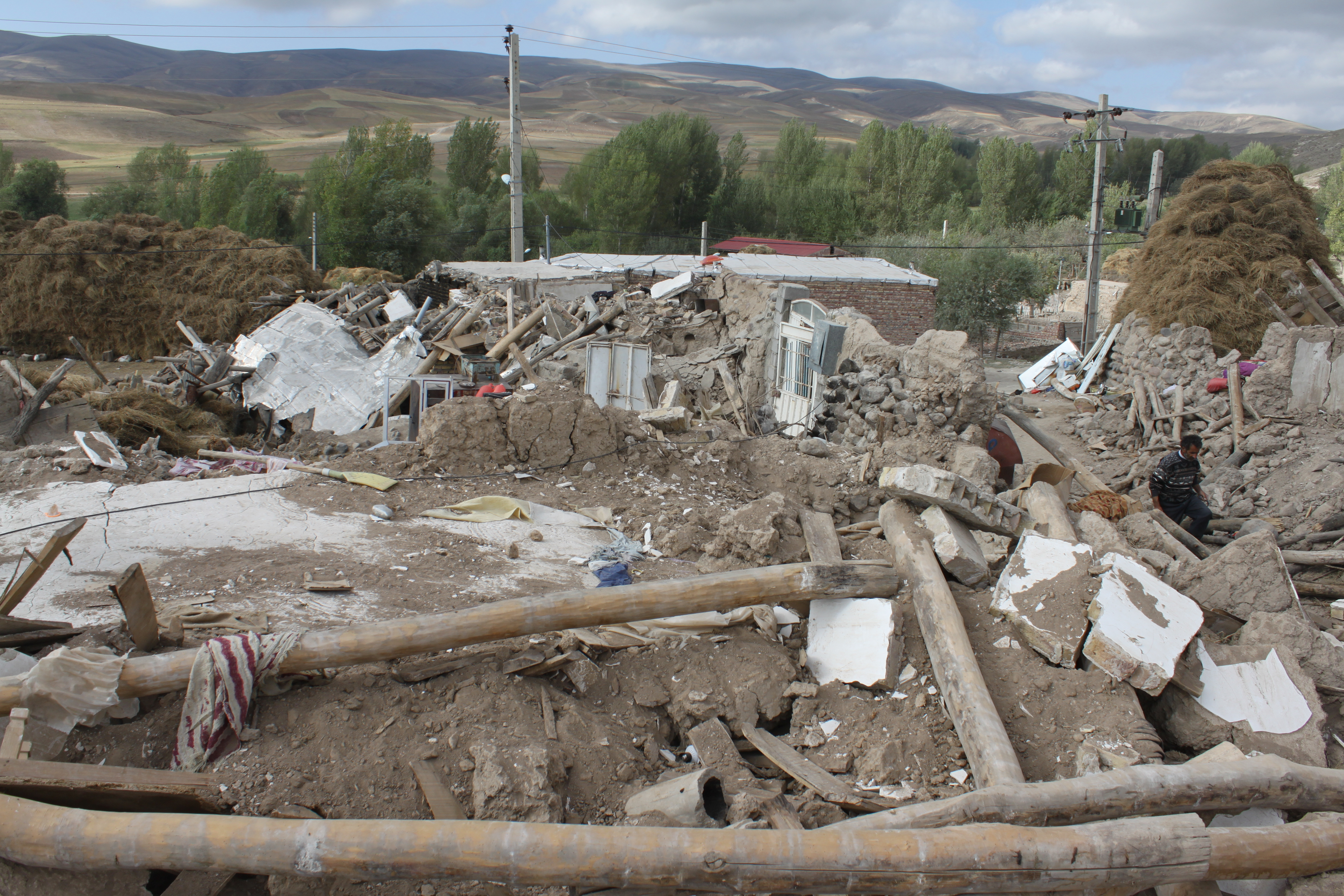 The 2012 East Azerbaijan earthquakes occurred near the cities of Ahar and Varzaqan in Iran's East Azerbaijan Province, on August 11, 2012, at 16:53 Iran Standard Time. The two quakes measured 6.4 and 6.3 on the moment magnitude scale, and were separated by eleven minutes. The epicenter of the earthquakes was 60 kilometers (37 miles) from Tabriz.